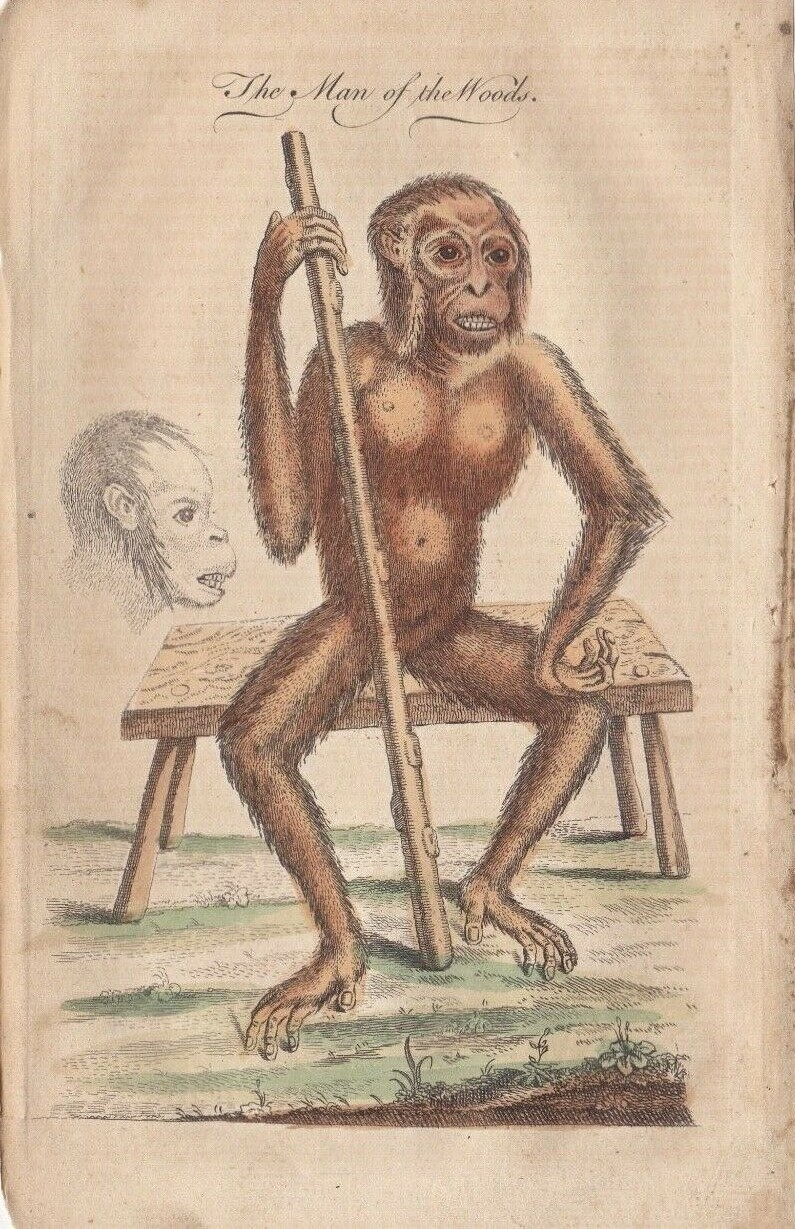 1758 Antique Engraving - "The Man of the Woods" - Orangutan - George Edwards